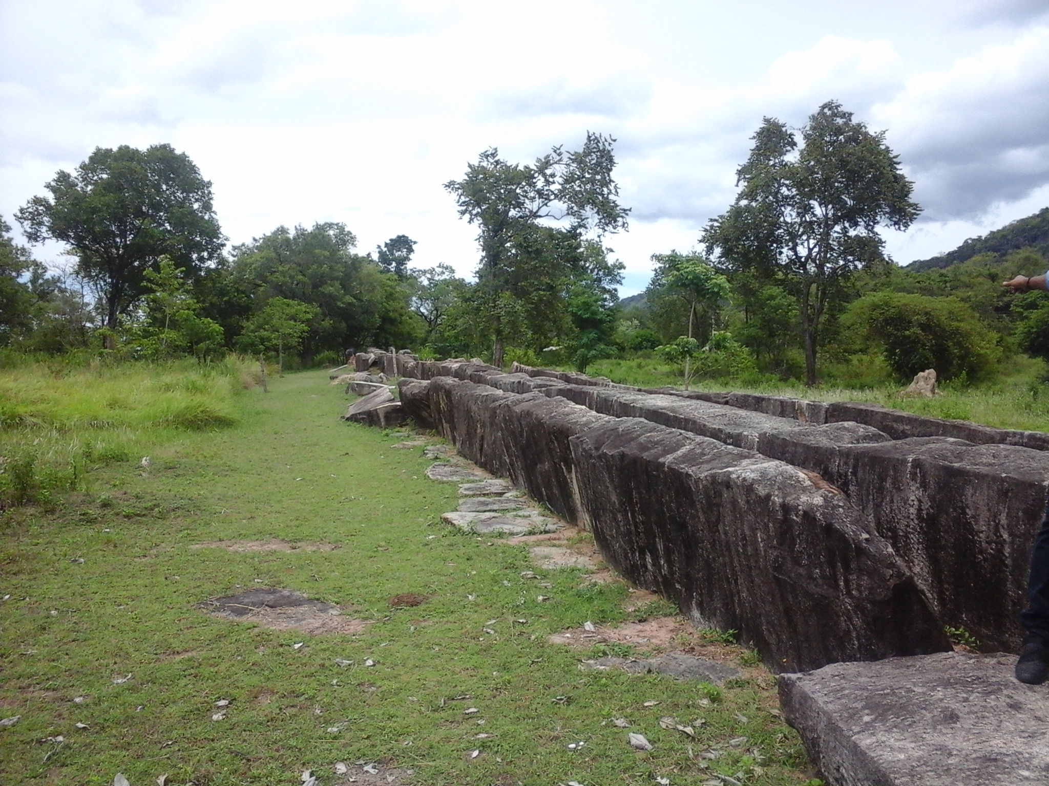 RambakenOya Ruins